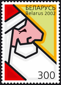 Stamp of Belarus